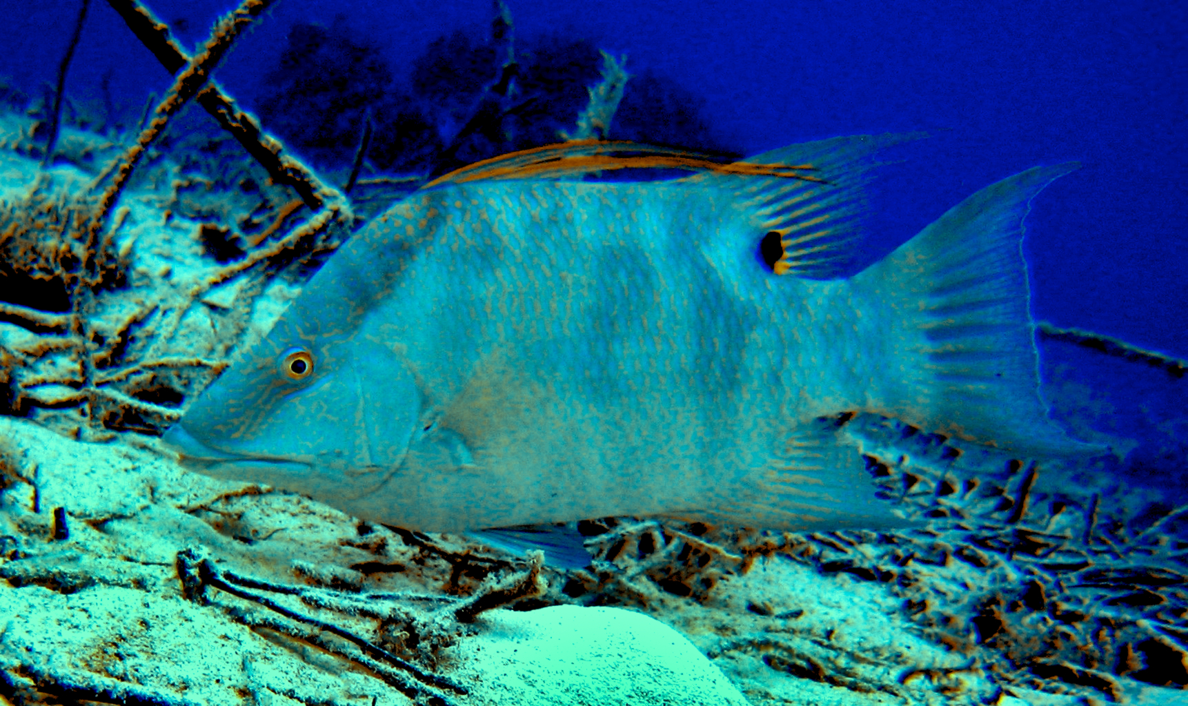 A hogfish swimming around outside Puerto Morelos, Yucatan, Mexico.